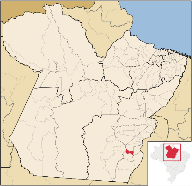 Map locator of Pará's Pau d'Arco city.